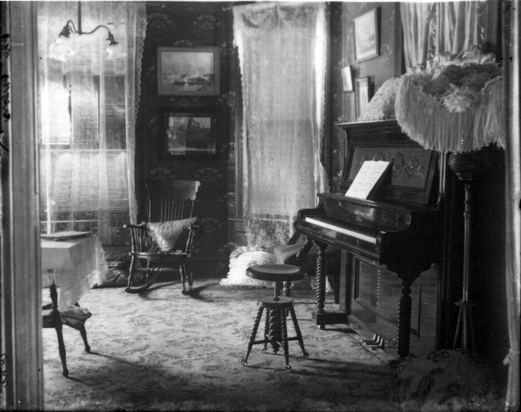 Persistent URL: Subject (TGM): Interiors; Parlors; Pianos; Rocking chairs; Stools; Furniture; Musical instruments; Universities and colleges; Location: Oxford, Ohio